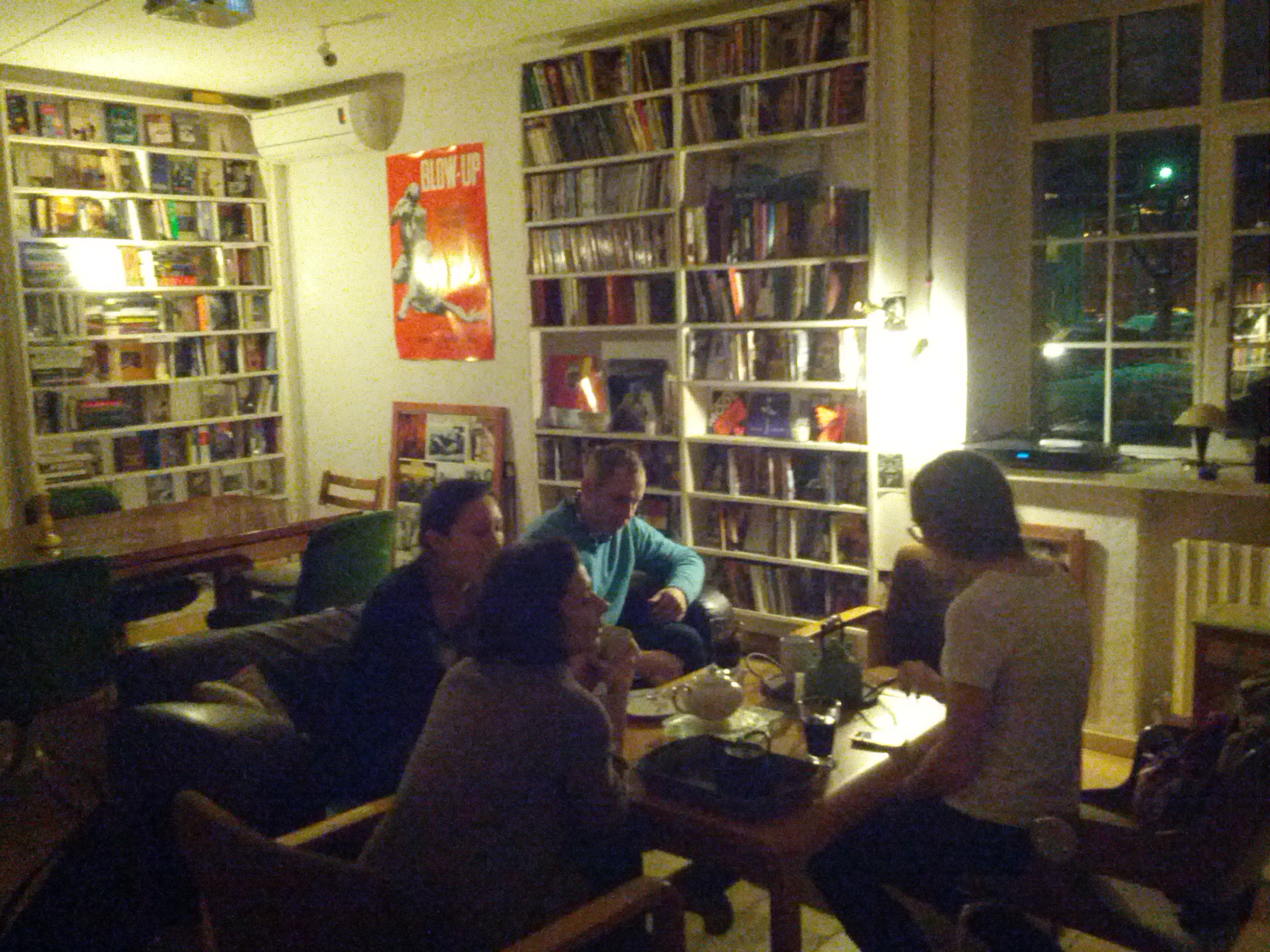 Kaliningrad Creative Library Laboratory, described as an anti-café.